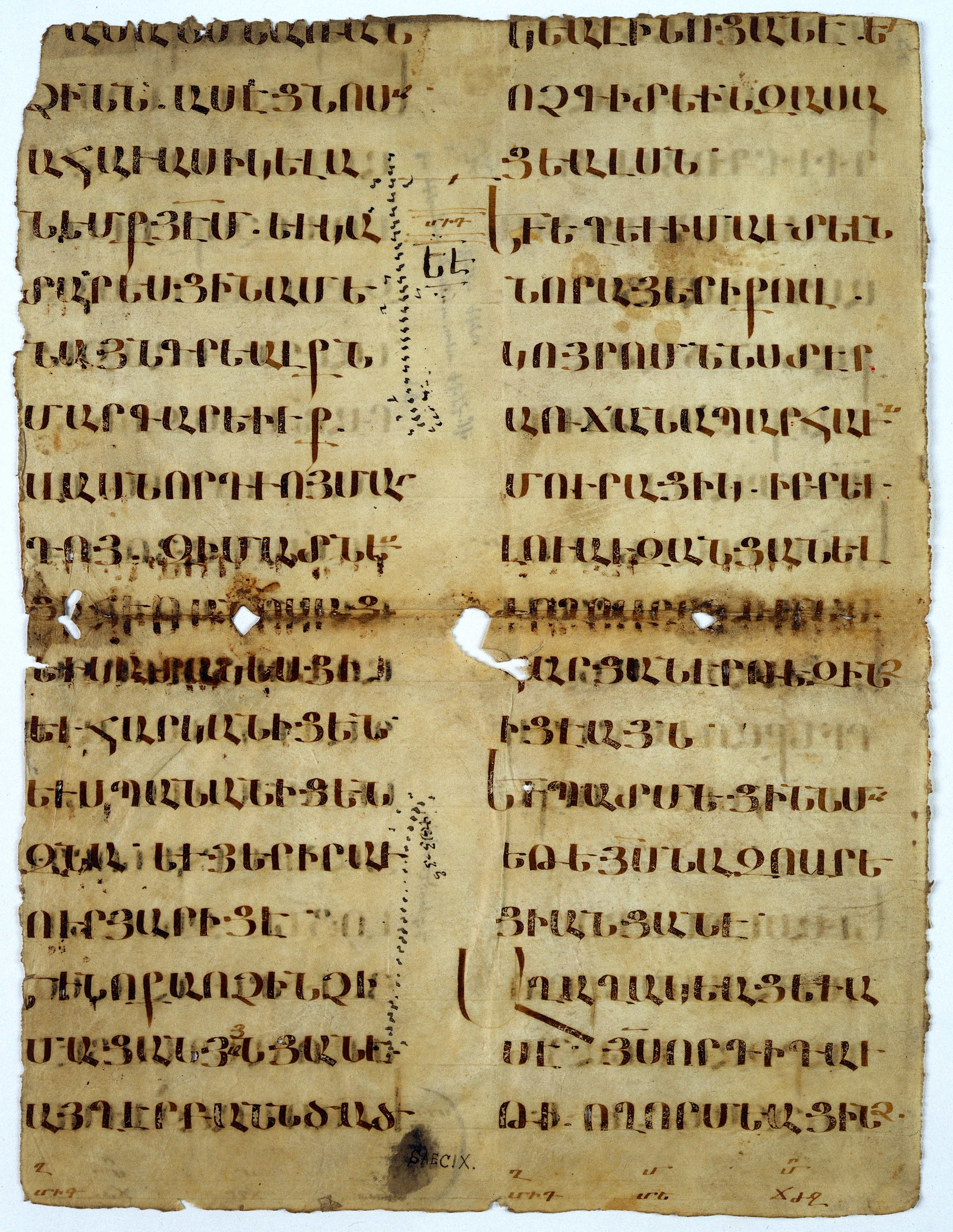 Armenian Manuscript, fragments. Text is from the Gospel of St Luke 18: 31-39 12th century Wellcome Images Keywords: gospels; apostles; Sacred Subjects; new testament